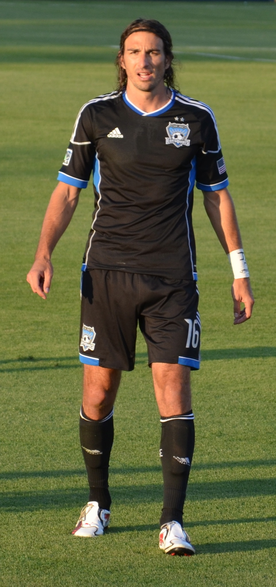 Alan Gordon playing for the San Jose Earthquakes at Buck Shaw stadium 28 July 2012.